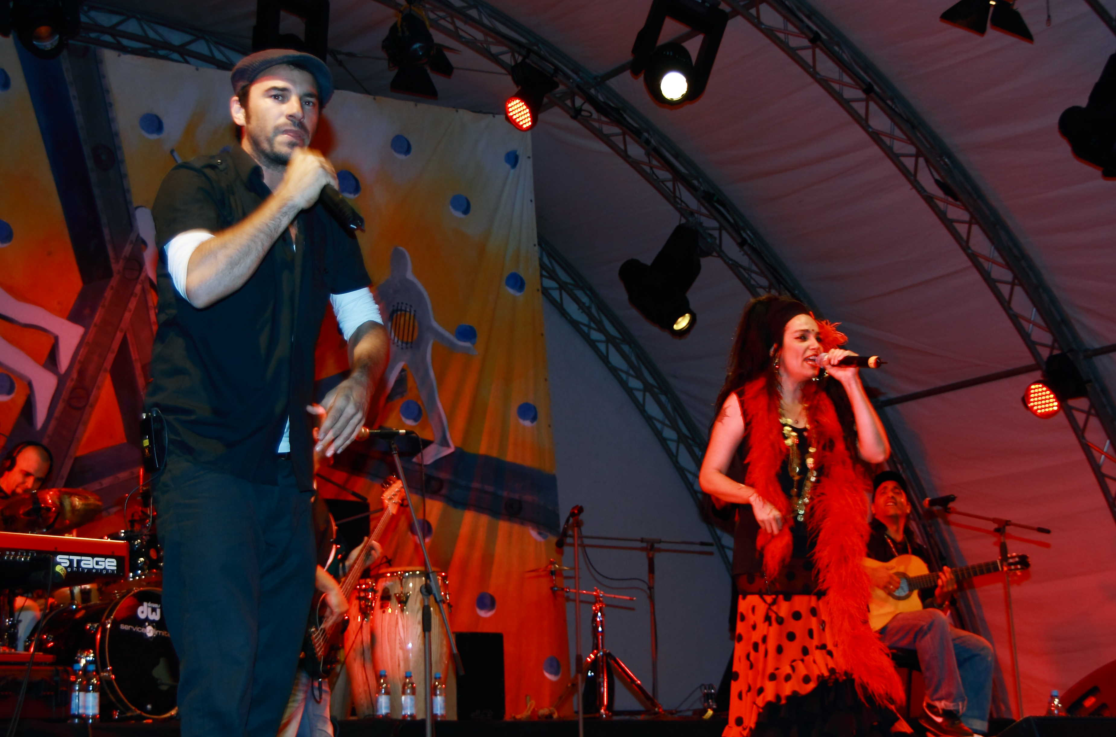 Ojos de Brujo at TFF.Rudolstadt, 2010